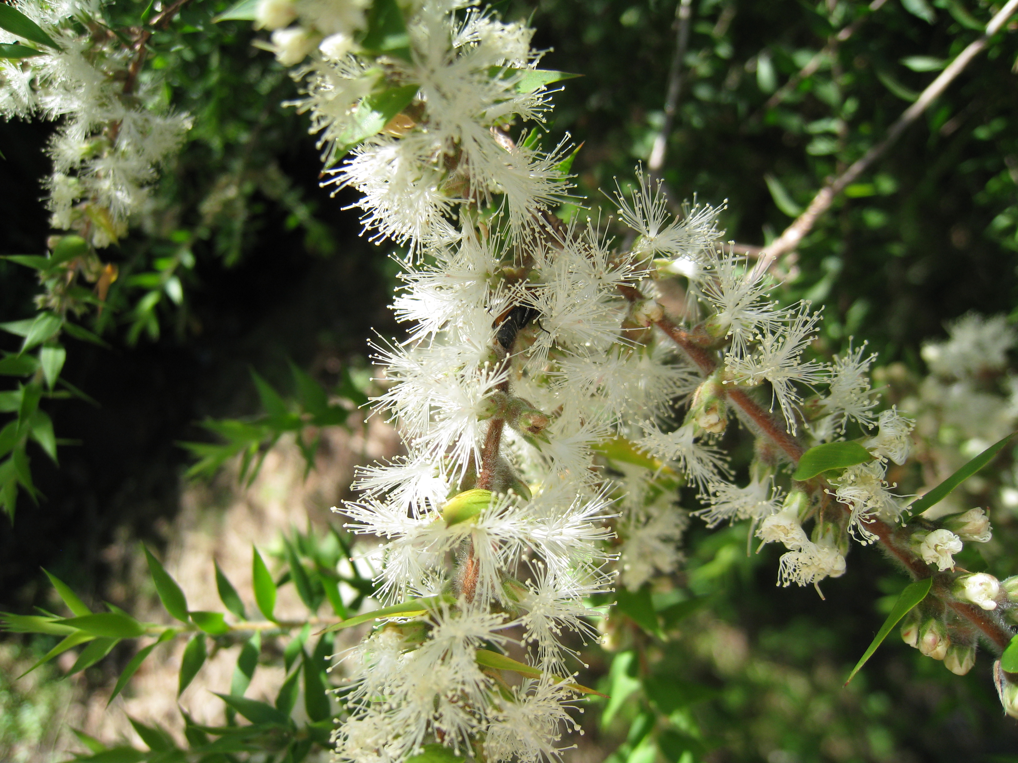 Kunzea ambigua when flowering, is home to many bugs, beetles and other insects.. Paruna Reserve, Como NSW Australia November 2010.